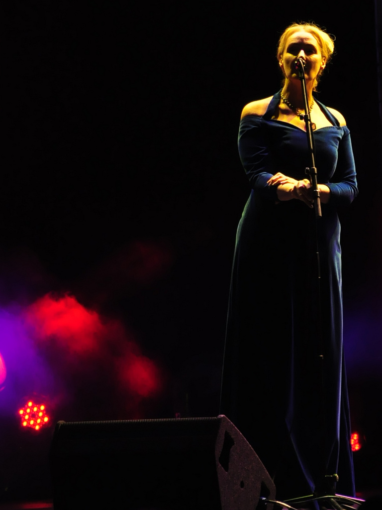 Taken at Klaus Schulze & Lisa Gerrard.